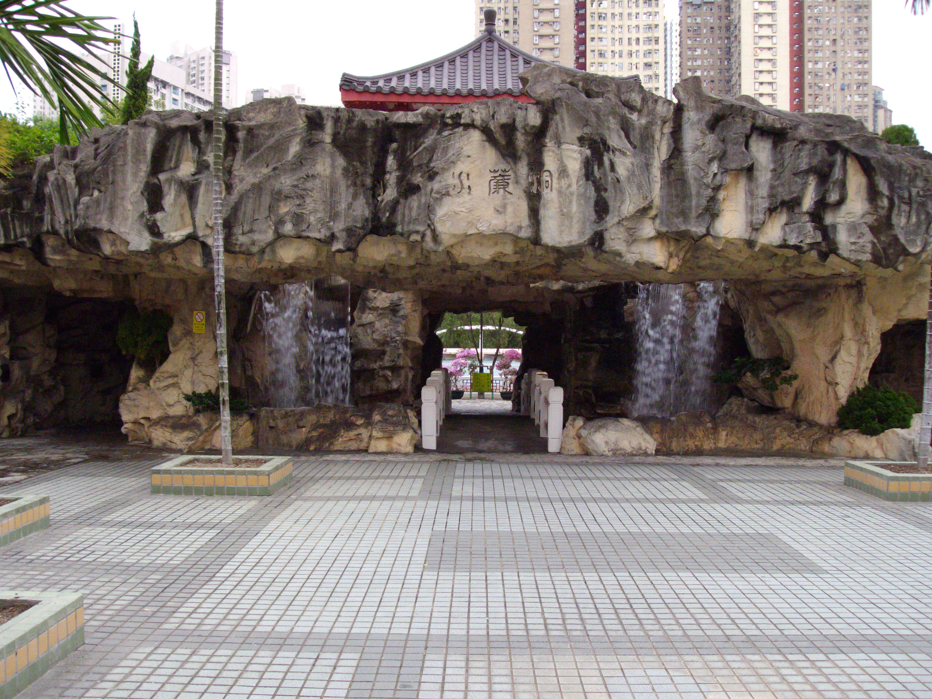 This photo is taken by User:Itsmine, with camera model :PENTAX Optio E30, and double licensed as cc-by-sa-3.0/2.5/2.0/1.0 or GFDL.